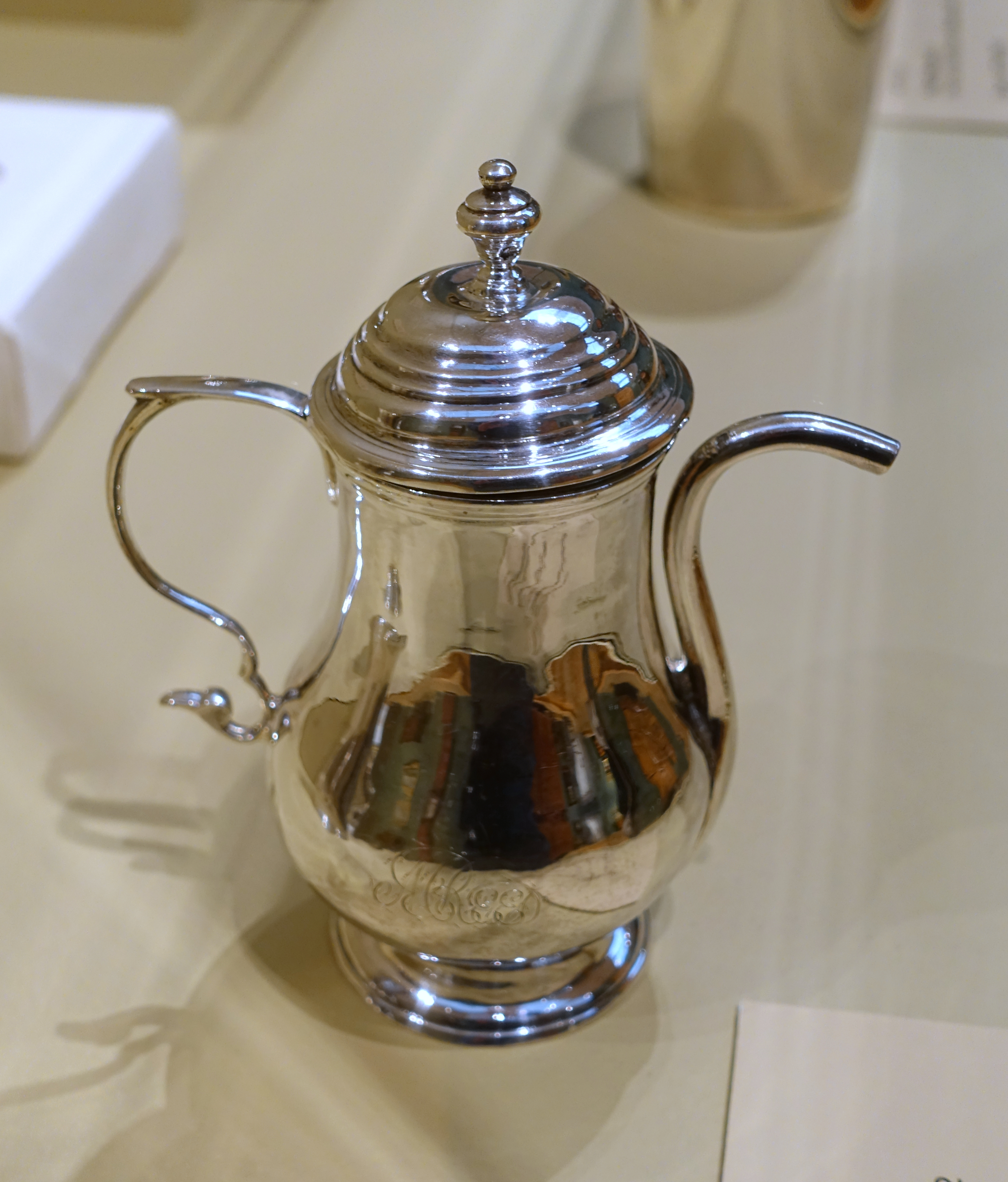 Exhibit in the Currier Museum of Art - Manchester, New Hampshire, USA.